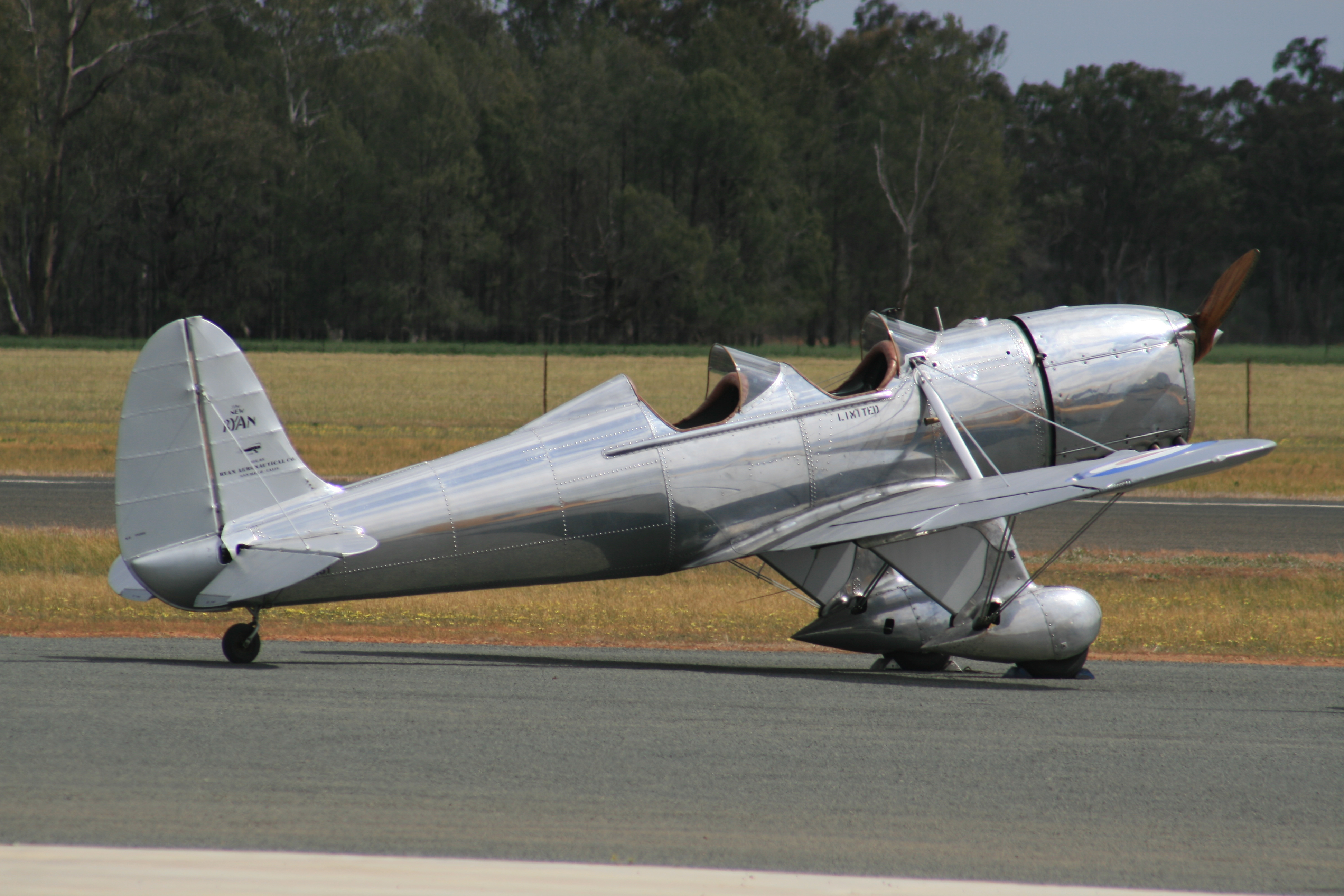 A Ryan STM. This aircraft served with the Netherlands East Indies (now Indonesia) Air Force and the Royal Australian Air Force during World War Two and was released to civilian service following the war. Digital photo of VH-RSY taken by YSSYguy at Temora on 16 September 2007 & uploaded for use in the Ryan ST article.